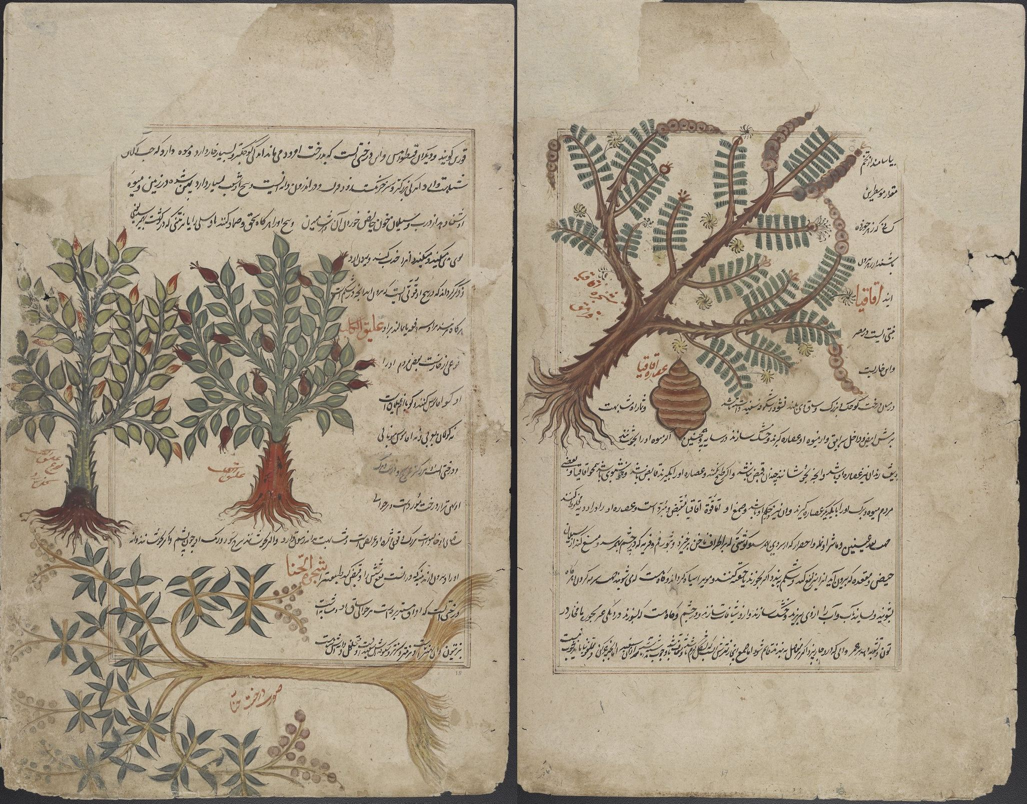 A 16th-century manuscript of Kitāb-i ḥashāʼish. Persian Translation of "De materia medica", A book by Dioscorides Pedanius, of Anazarbos. Illustrated herbal with detailed descriptions in multiple languages (but all written in the Persian nastaʻlīq script) of the physical appearance and the medicinal effect of many plants, as well as some trees, minerals, and substances derived from animals.